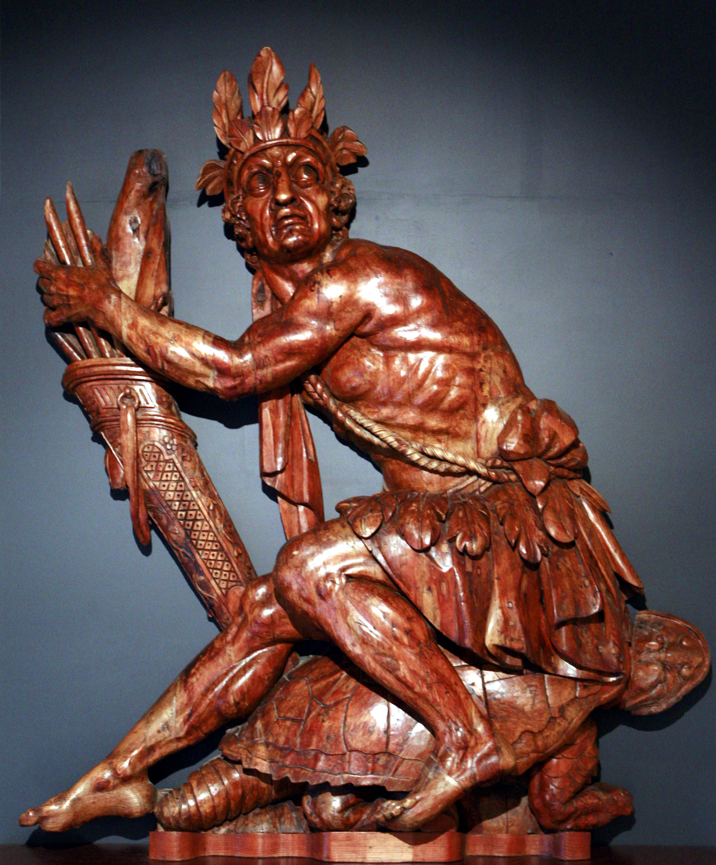 Poop decoration of an unidentified ship: Iroquois Indian sitting on a turtle, in reference to the great turtle that carries the Earth in Iroquois mythology. By the sculpture workshop of Brest arsenal On display at Brest naval museum, accession number MnM 41 OA 125